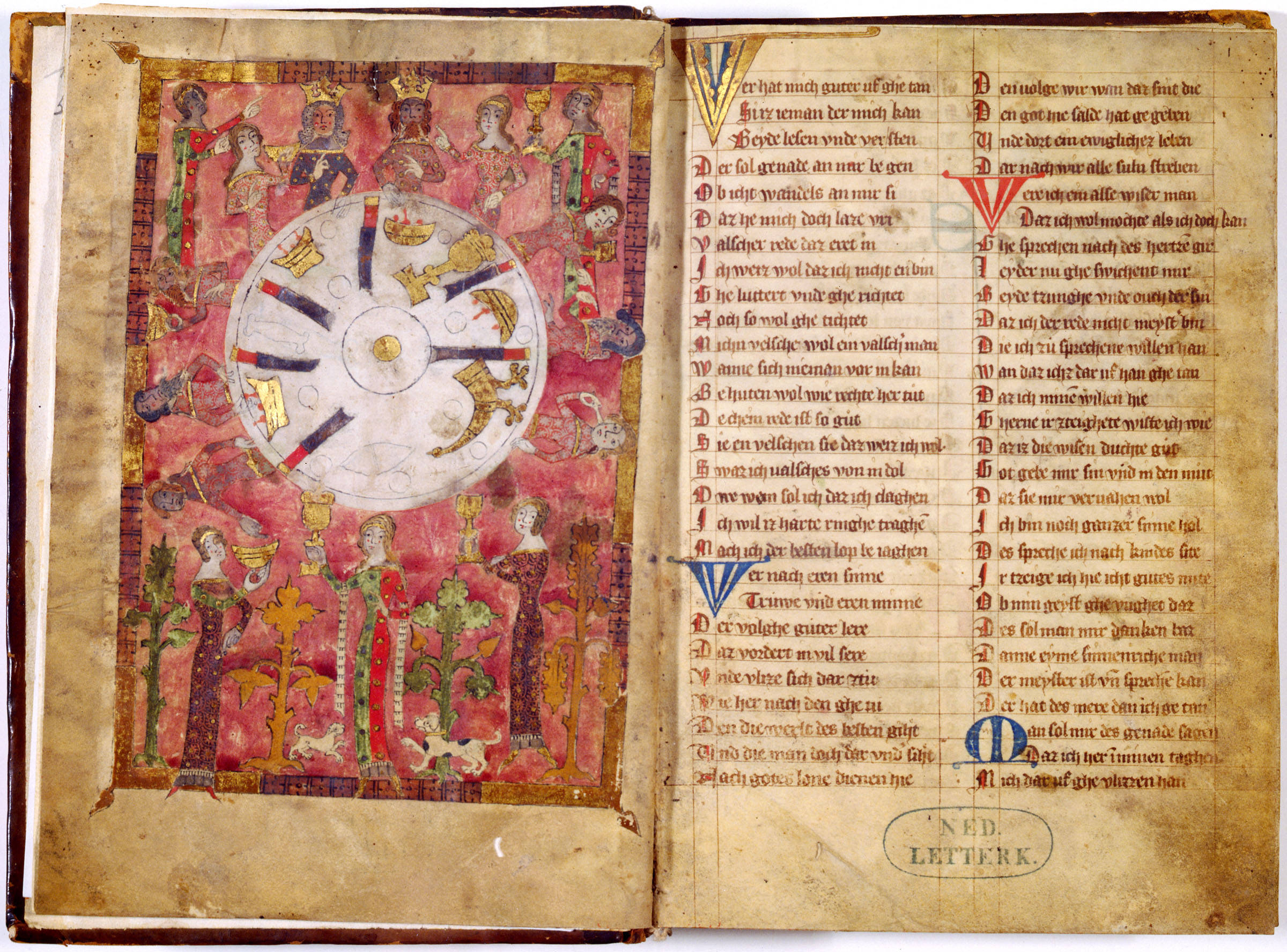 Wigalois von Wirnt von Grafenberg; Handwriting from 1337 scanned at Leiden University Library